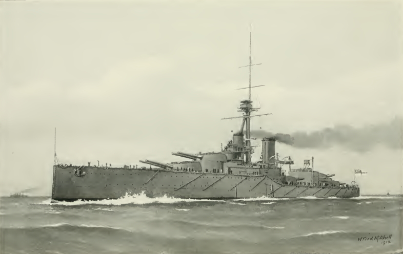 Painting of HMS Monarch